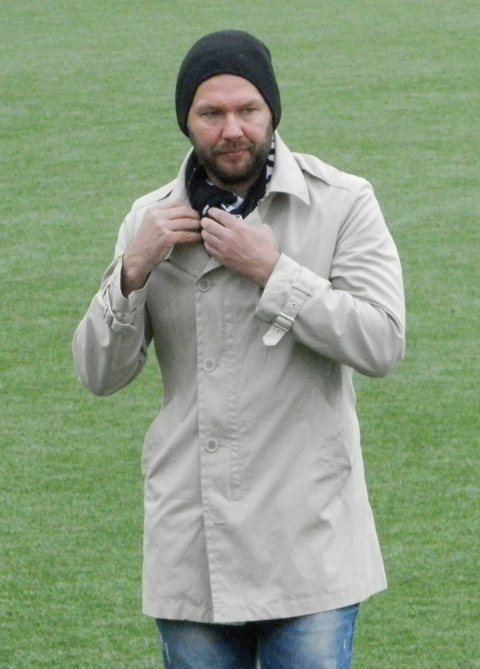 Hans Fróði Hansen is a former international football player for the Faroe Islands national team, where he played 26 matches and scored one goal. In 2013 he is manager for TB Tvøroyri.